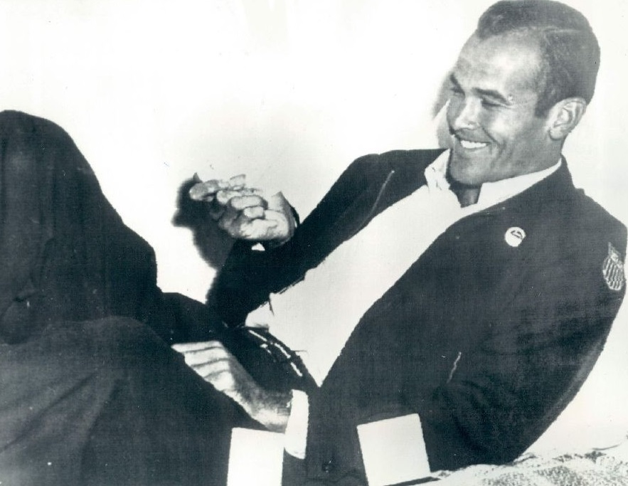 Bobby Morrow in 1956